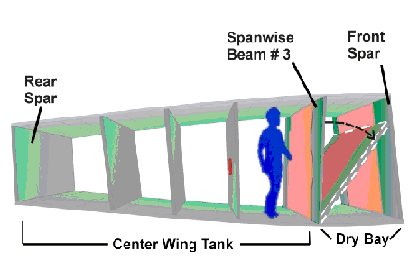 Slide from NTSB presentation of TWA 800 breakup sequence. Taken from